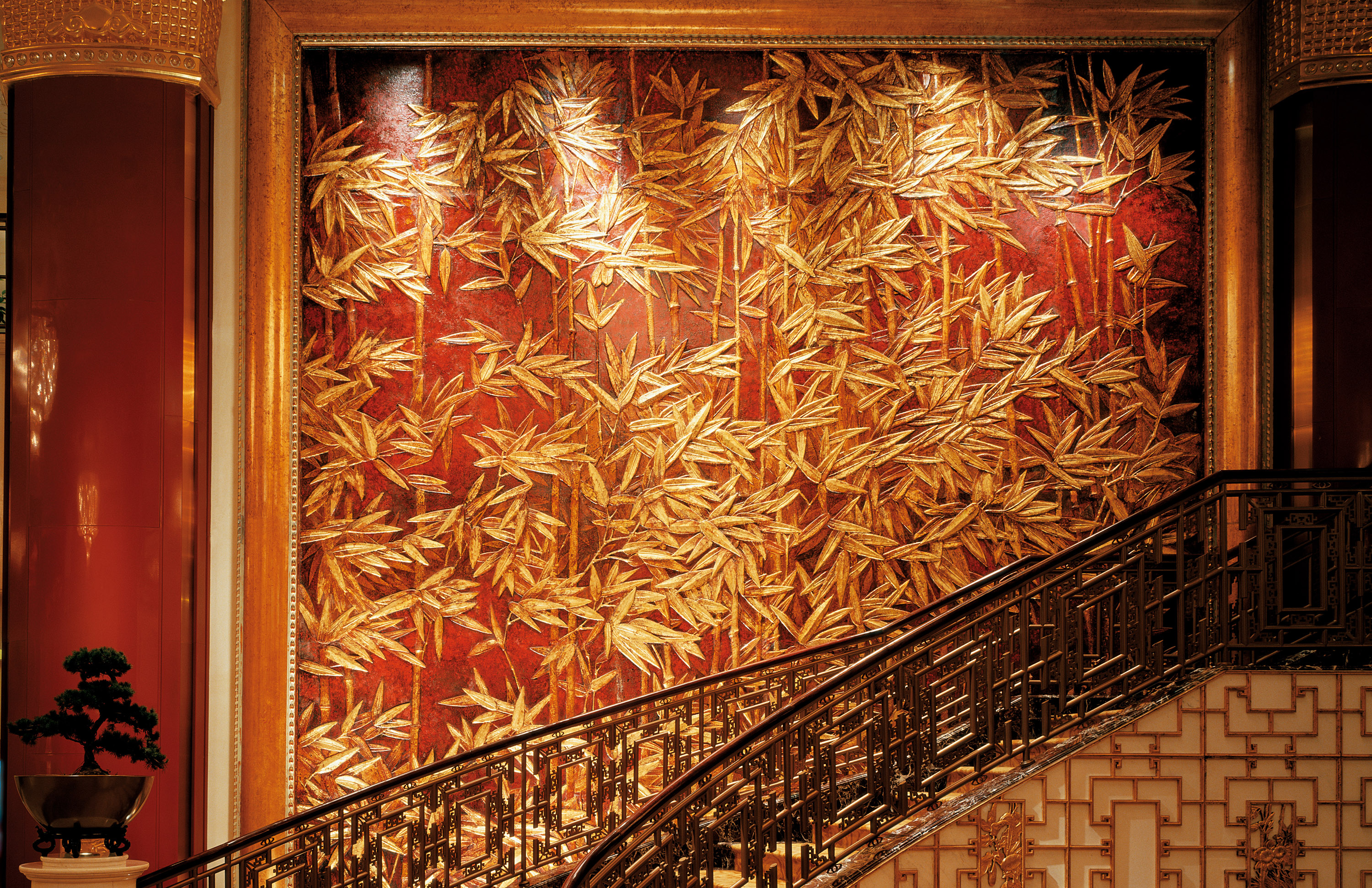 Golden Bamboo mural at China New World Hotel, Beijing